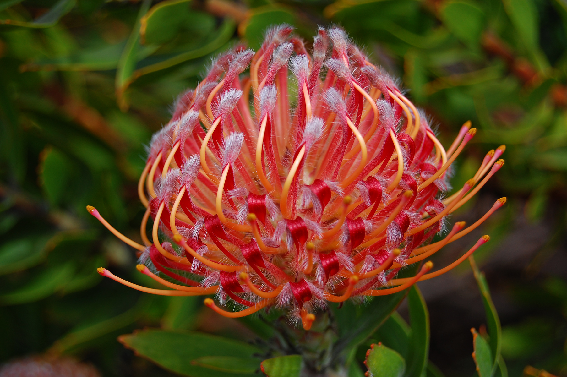 ‘Scarlet Ribbon’ cultivar in Tasmania.